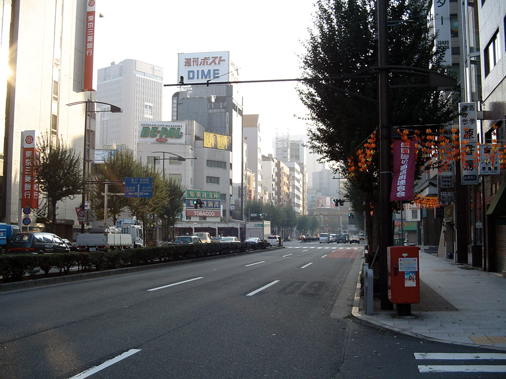 A picture of morning Yasukuni-dōri street in Jimbochō, taken in November 2004.